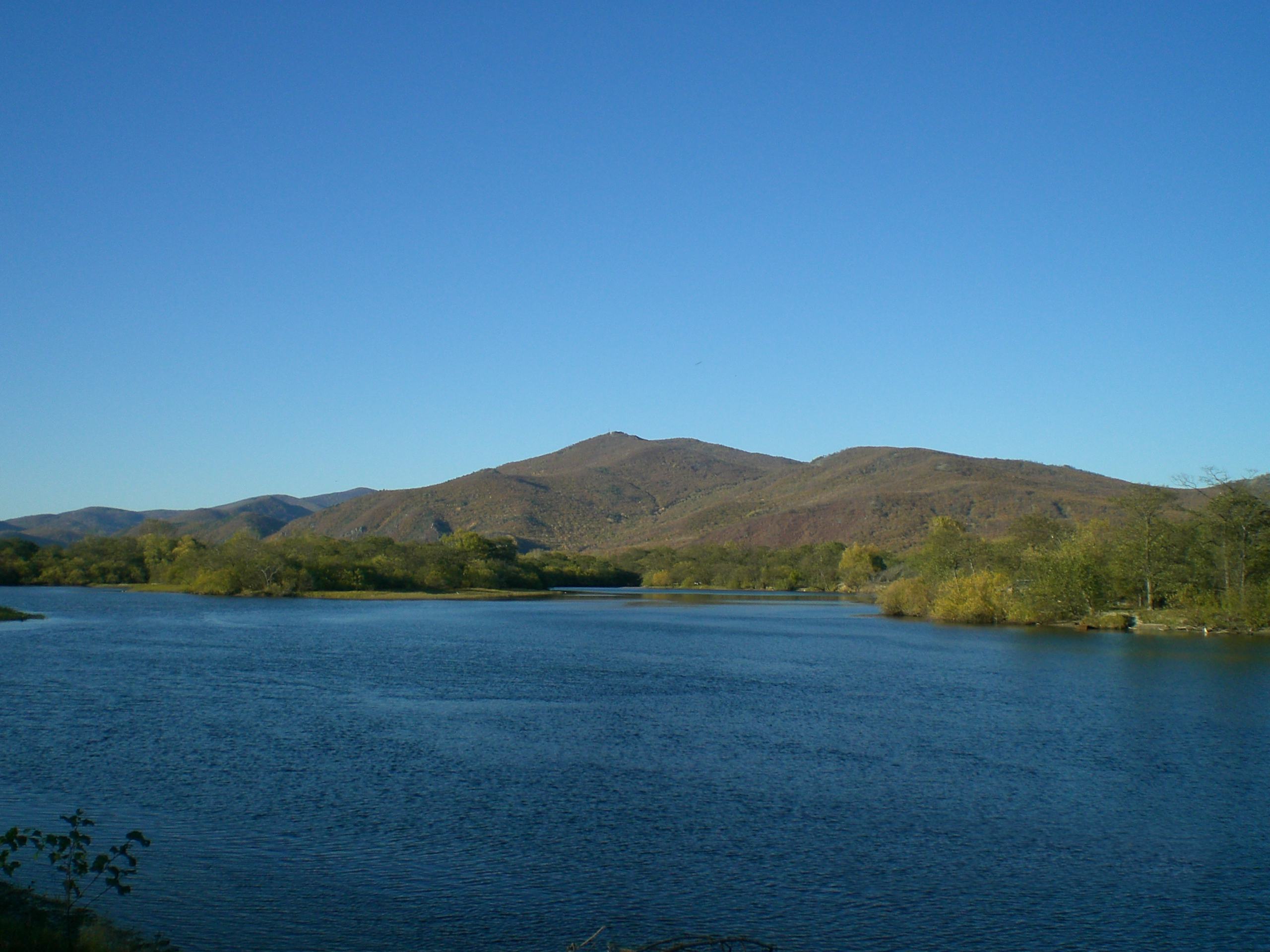 Serebryanka river